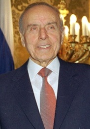 THE KREMLIN, MOSCOW. President of Azerbaijan Heydar Aliyev.